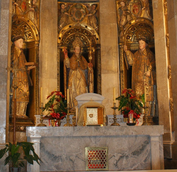 Saint Fructuous' chapel, Cathedral de Tarragona, Spain, with 17th century sculptures and a reliquary